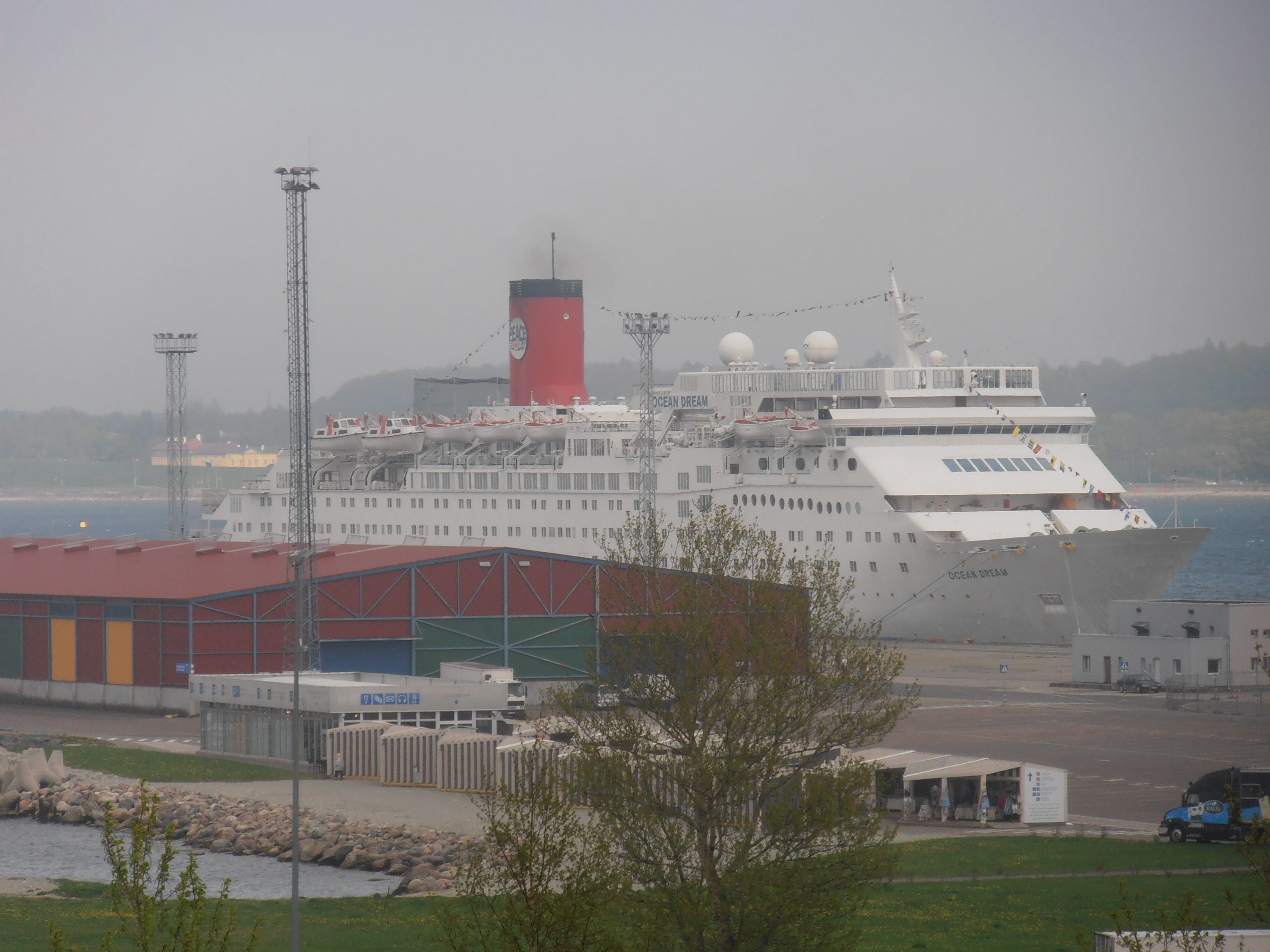 Ocean Dream at quay 15 in Tallinn 20 May 2013